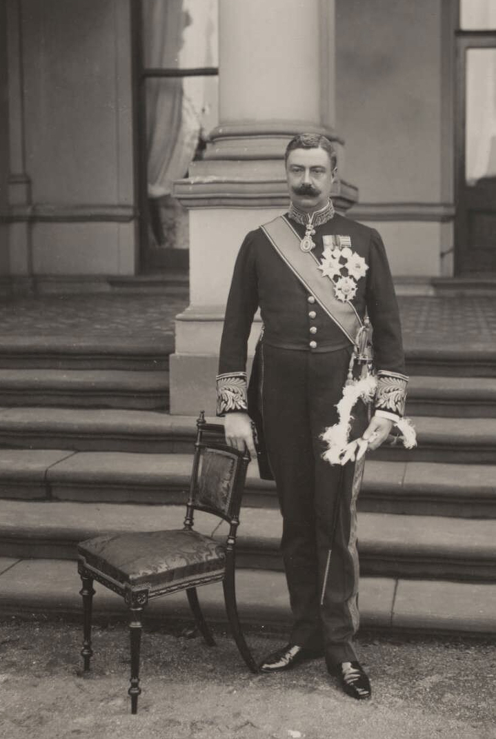 William Humble Ward, 2nd Earl of Dudley (1867-1932), in viceregal uniform as Governor-General of Australia, 1908-1911